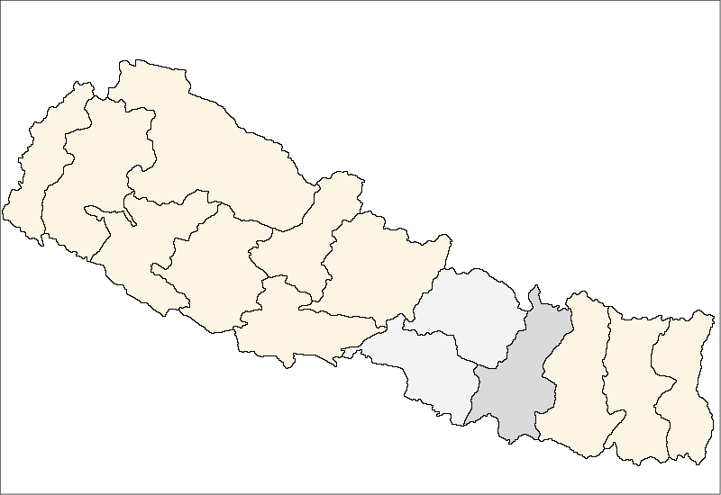 FrenchCarte de localisation de lazone de Janakpur(wp-FR),au Népal (wp-FR).EnglishLocation map ofJanakpur Zone(wp-EN),in Nepal (wp-EN).